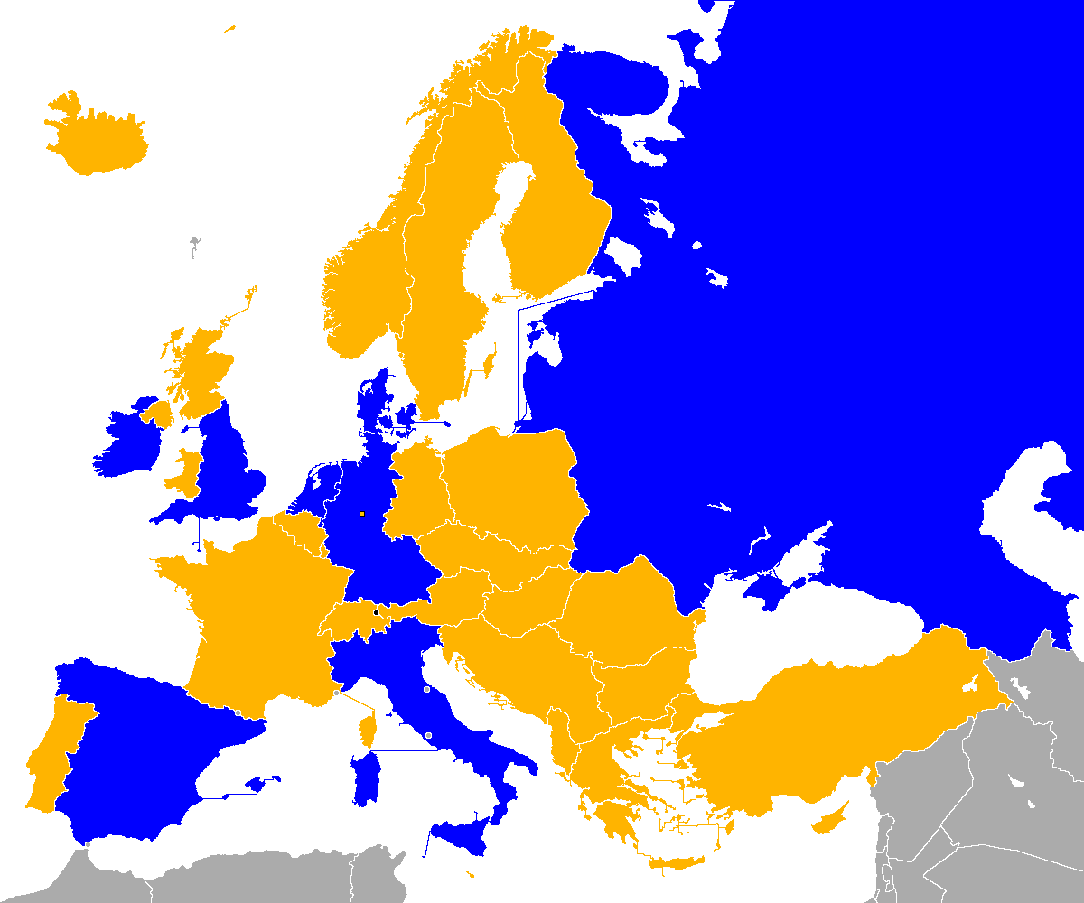 Euro 1968 qualifiers